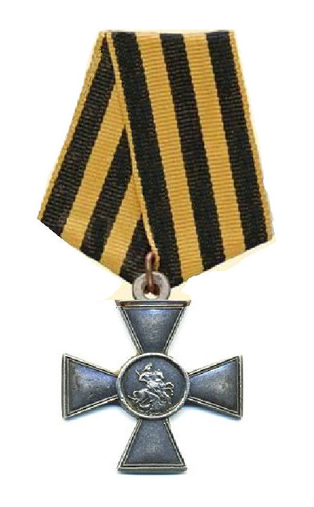 Cross of Sant-George Imperial Russia